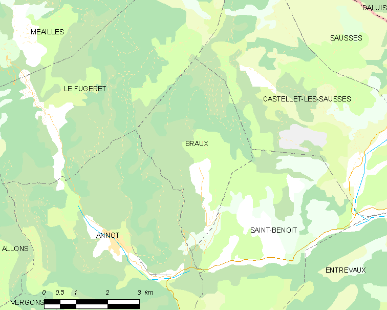 Map commune FR insee code 04032.png Légende